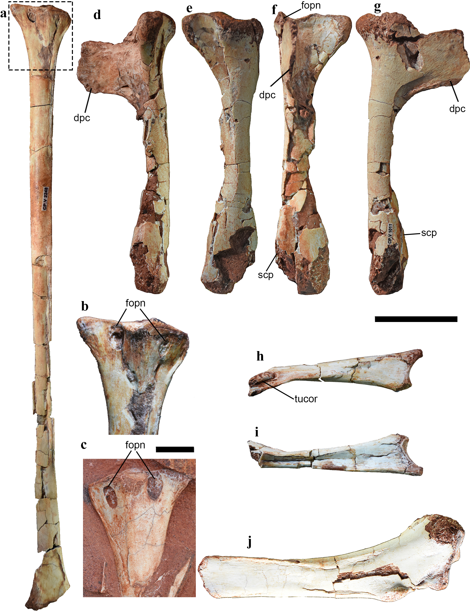 Figure 7. Keresdrakon vilsoni gen. et sp. nov. (a) complete left first phalanx of manual digit IV (CP.V 2248), (b) proximal articulation of left first phalanx of manual digit IV (CP.V 2248), (c) proximal articulation of right first phalanx of manual digit IV (CP.V 2373); right humerus (CP.V 1011) in (d) medial, (e) dorsal, (f) ventral and (g) lateral views; left incomplete coracoid in (h) ventral and (i) dorsal views, (j) scapula in dorsal view. Abbreviations: dpc - deltopectoral crest, fopn - foramen pneumaticum, tucor - coracoidal tuberculum. Scale bars = (b) and (c) 10mm, all others 50mm.